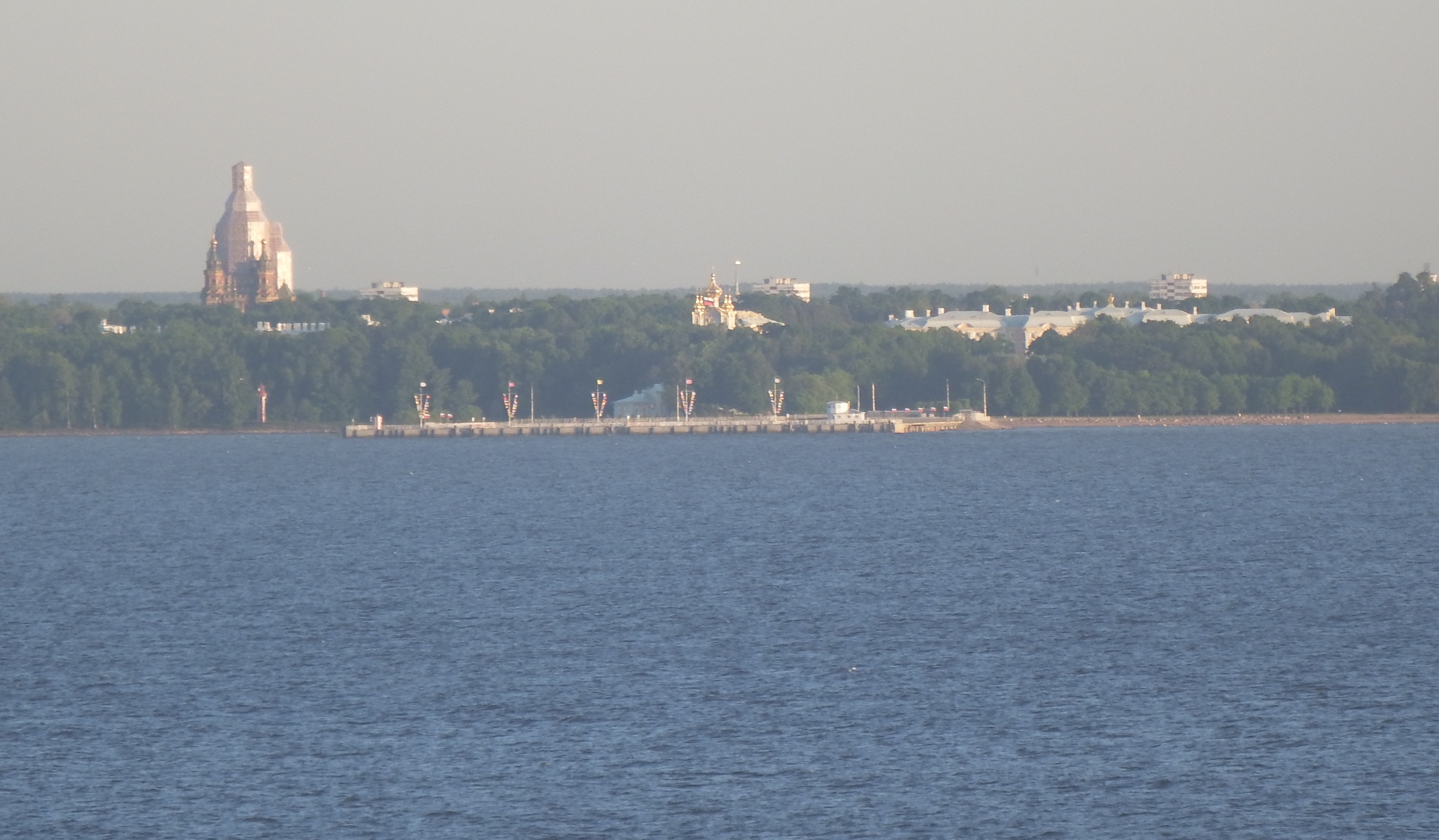 Petergof from the sea